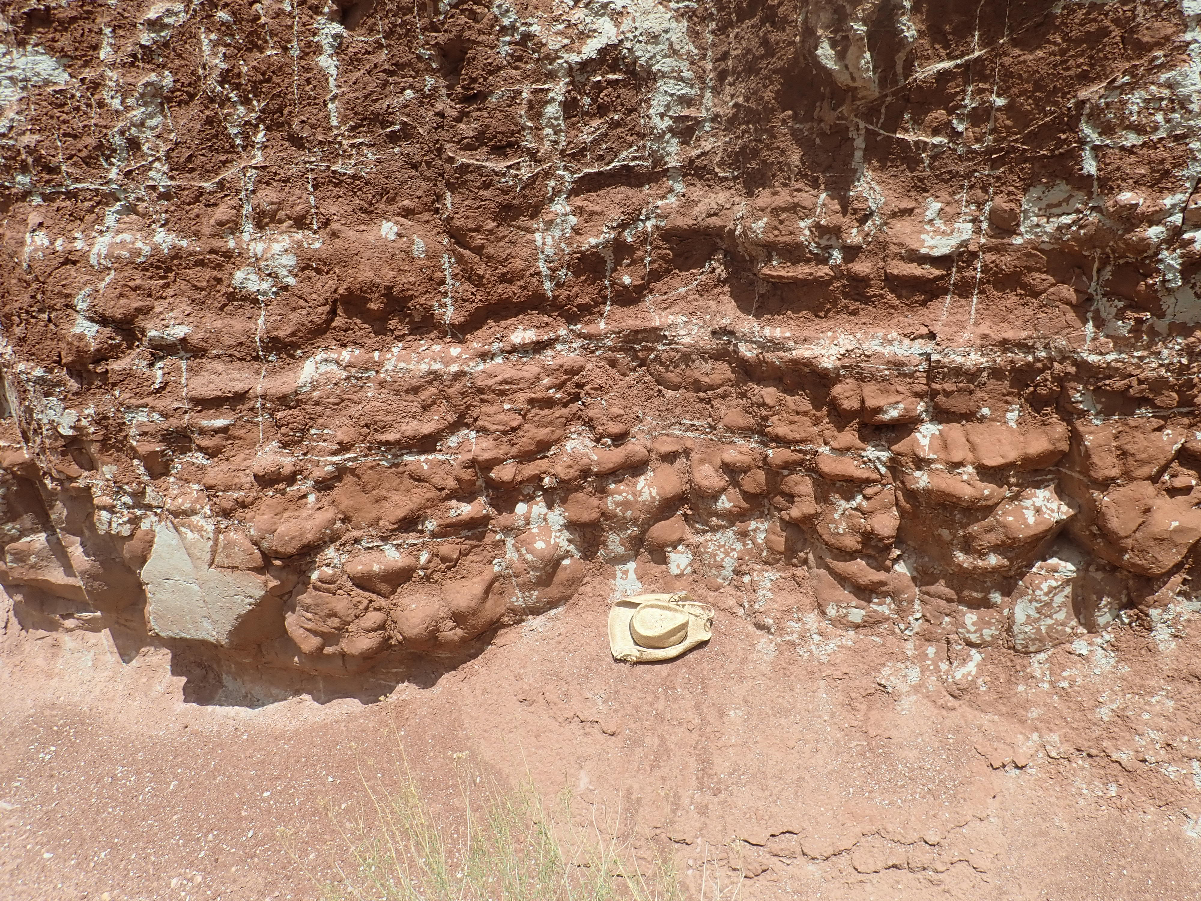 This image shows the upper beds of the Rock Point Formation near Youngsville, New Mexico, USA. The Rock Point Formation is a Triassic siltstone formation famous for its dinosaur quarries. This sections shows numerous rhizoliths, or root traces, in the upper part of the bed, suggesting it is a paleosol or fossil soil.